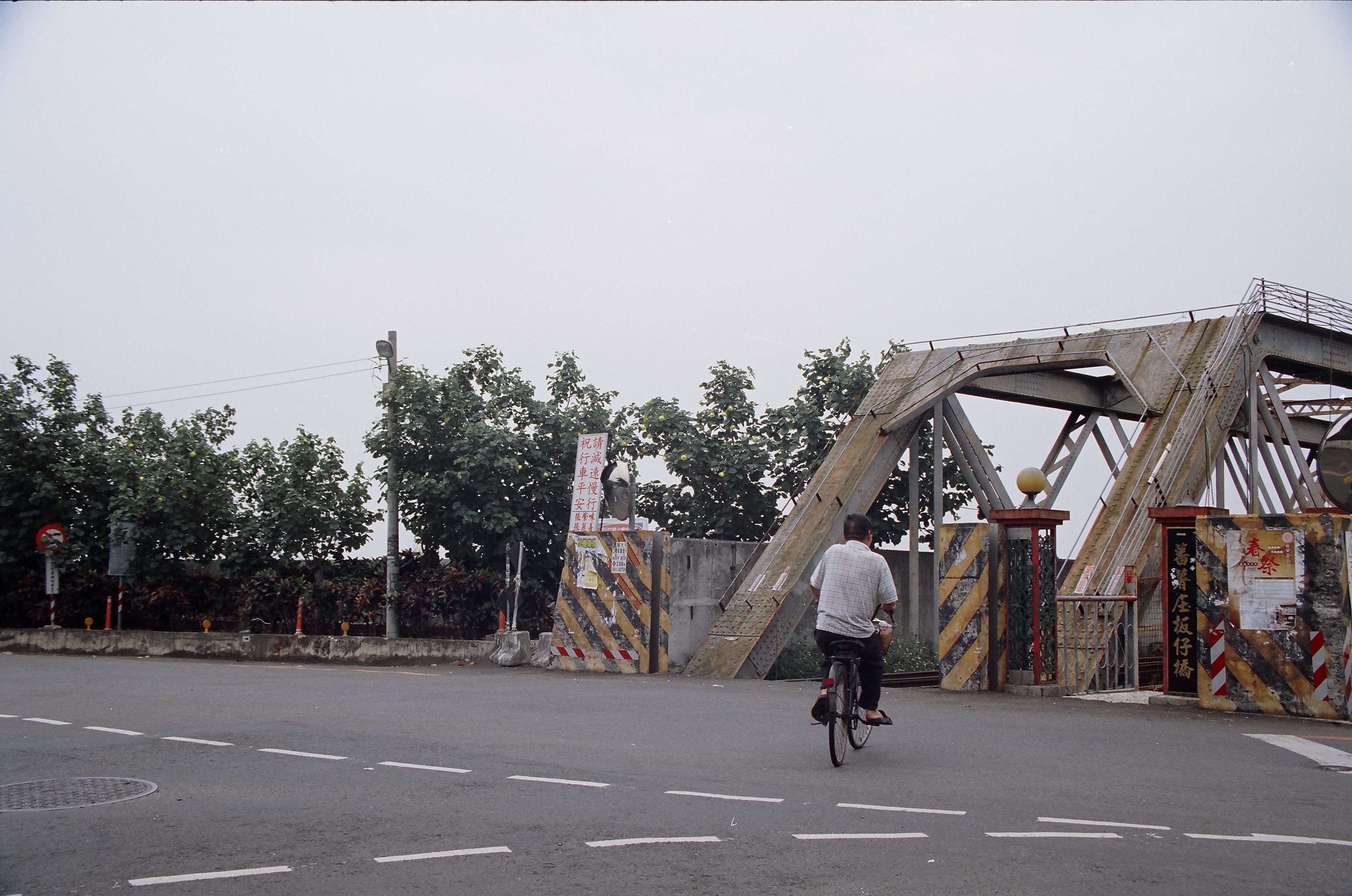 Taiwan Sugar Railway Huwei Dual gauge track bridge